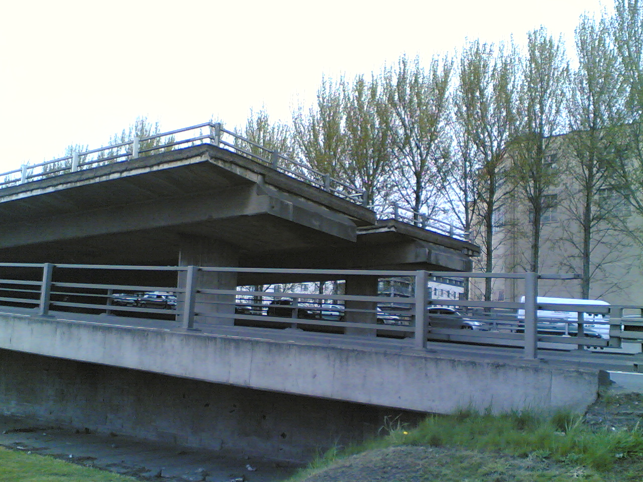 The so-called "ski-jump" unfinished motorway junction in Tradeston, Glasgow. Photographed by me, Erath on April 25, 2006.